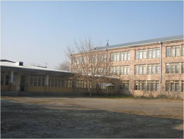 Mrgavan secondary school